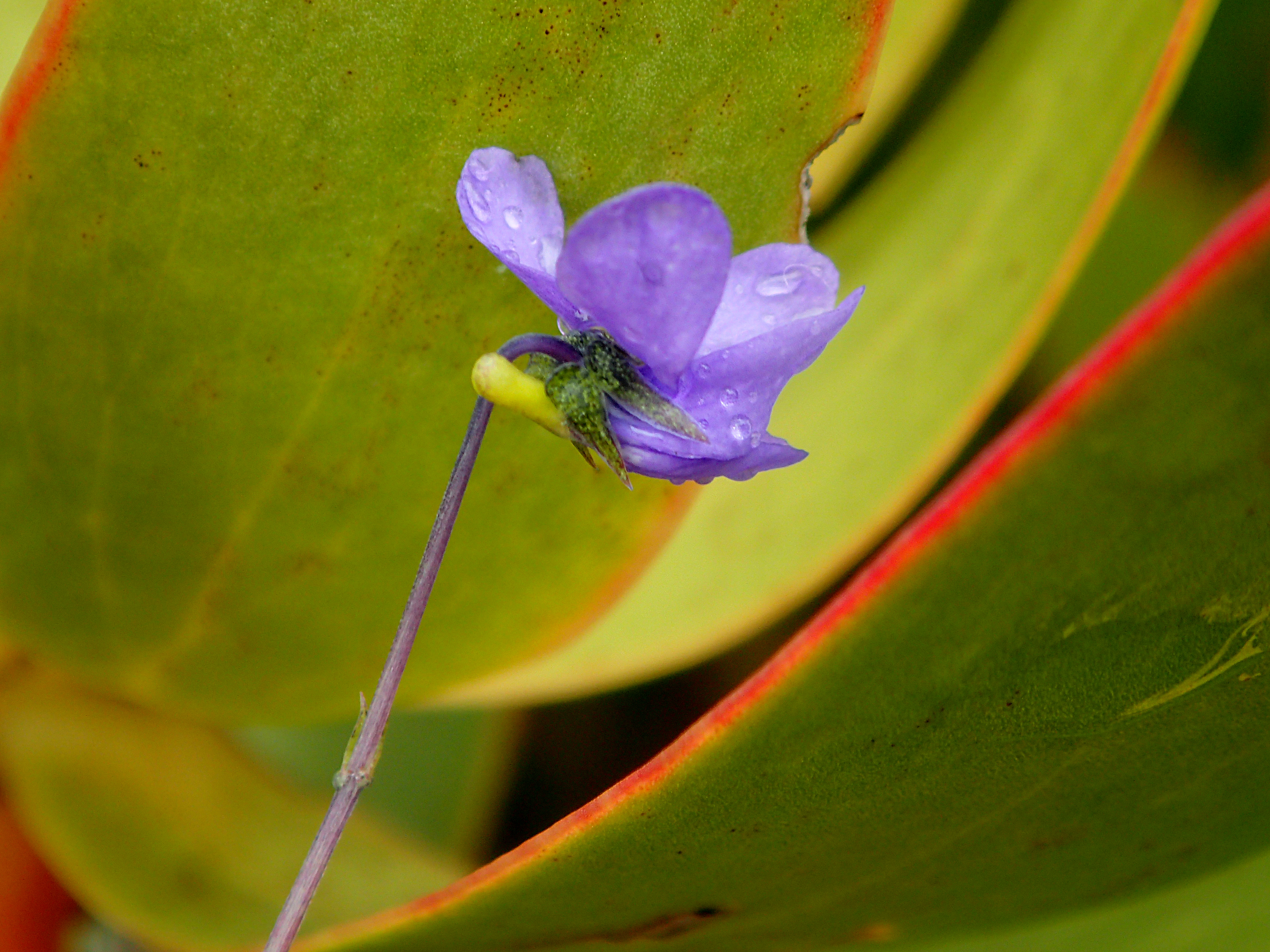 Viola decumbens at Kogelberg area near Bettysbaai, West-Kaap, Zuid-Afrika